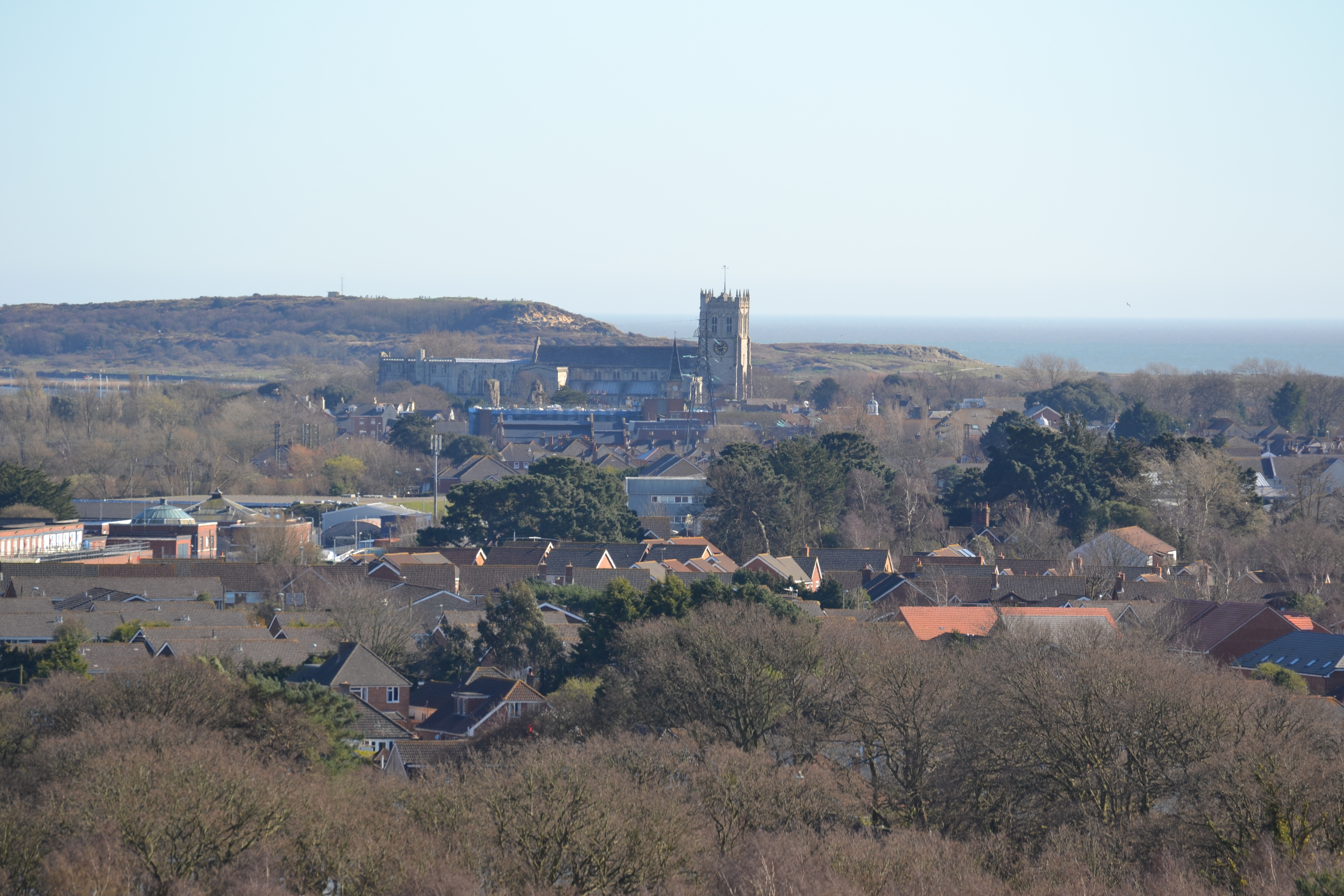 View from St Catherine's Hill across Christchurch towards the Priory and Hengistbury Head.